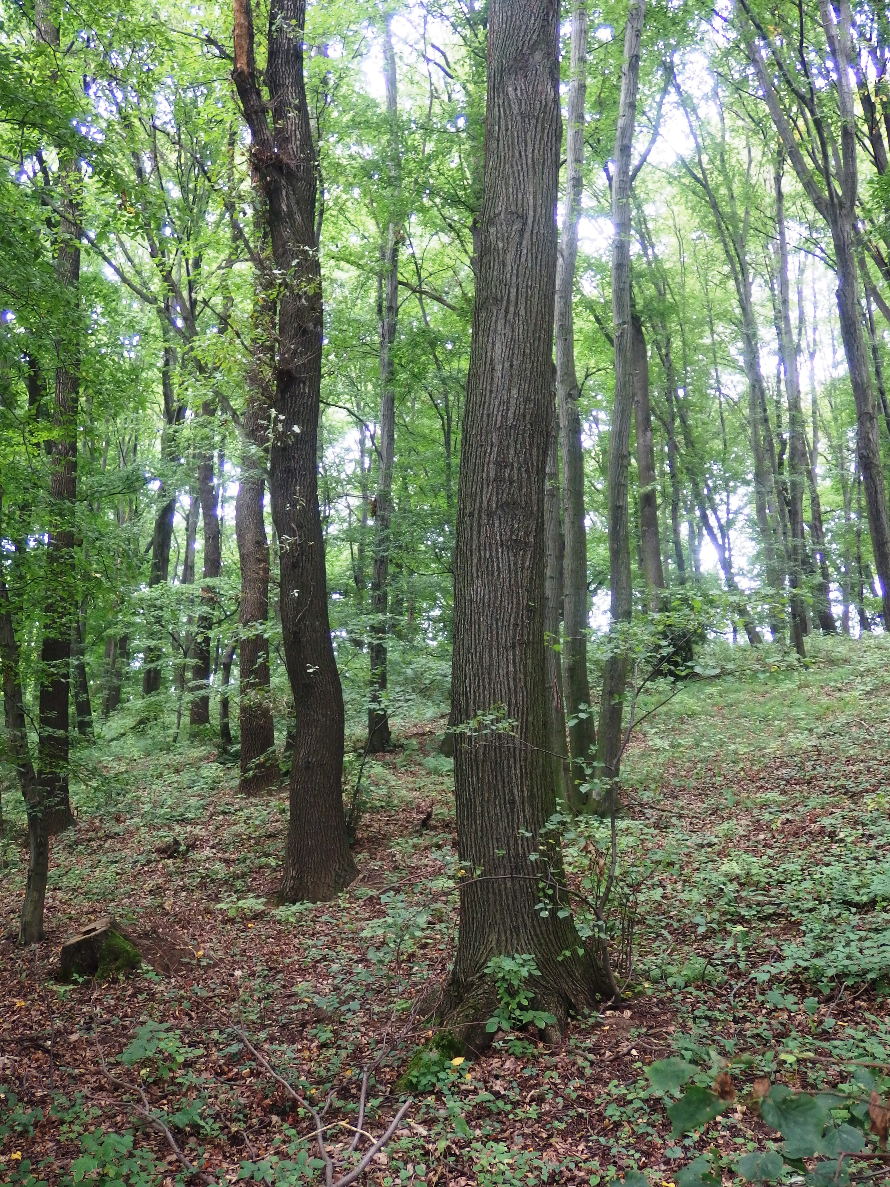 Dubina, natural monument near Prusinovice, Kroměříž District, Czech Republic.